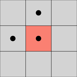 Image raster scan 4 connectivity